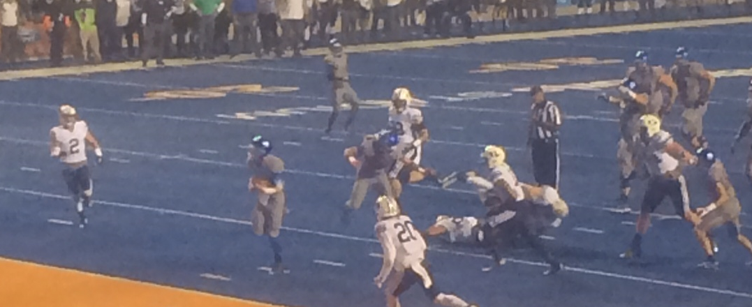 Boise State senior quarterback Grant Hedrick scoring a touchdown in the first quarter of the Broncos' game vs BYU on October 25, 2014 at Albertsons Stadium in Boise, Idaho.